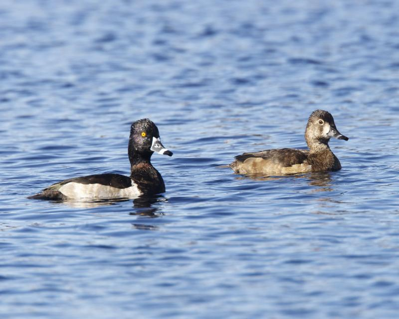 Ring-necked Duck - pair Aythya collaris Las Vegas suburbs, Nevada, USA November 9 2010 Distribution: 690V4527